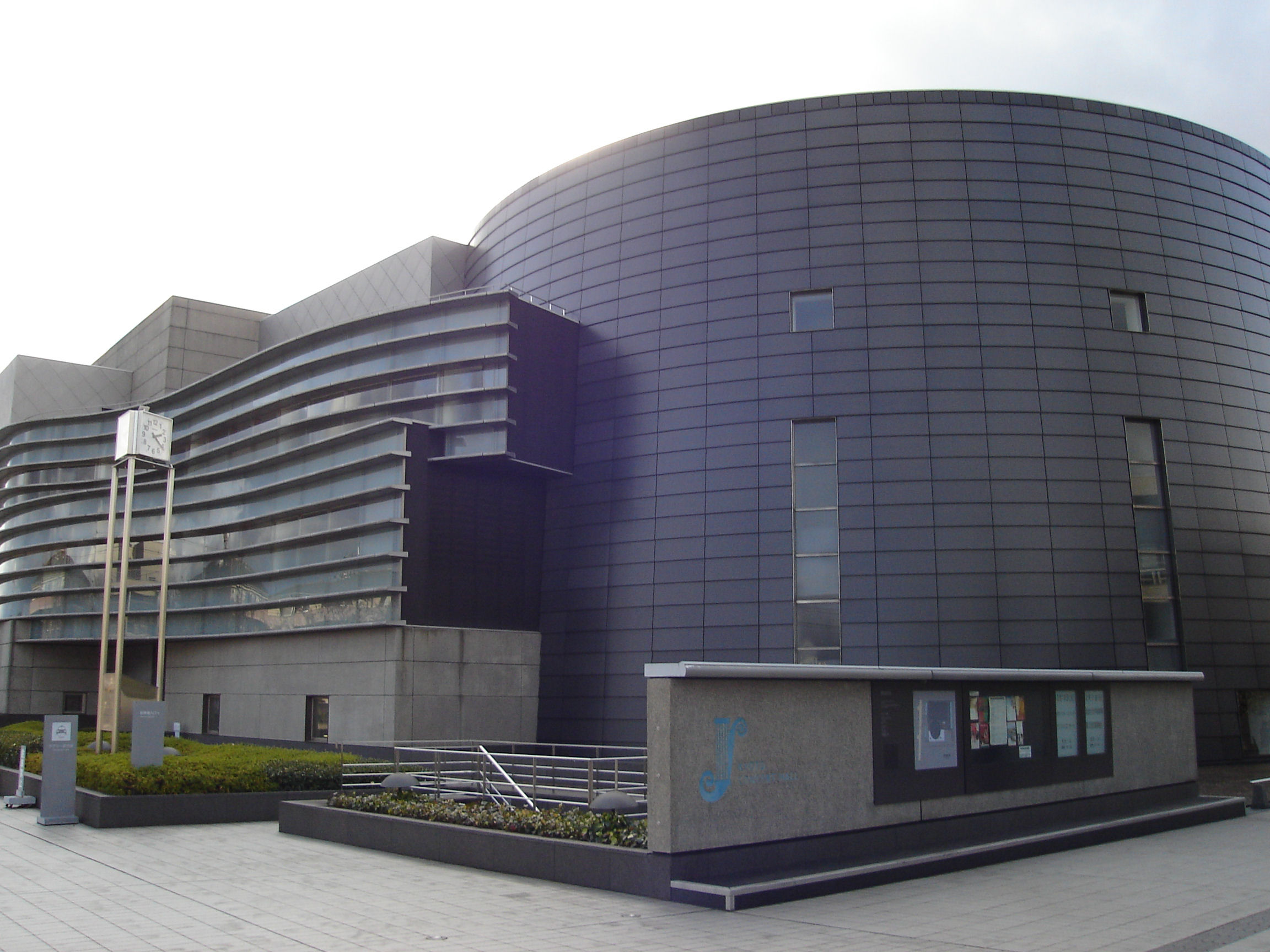 Kyoto Concert Hall